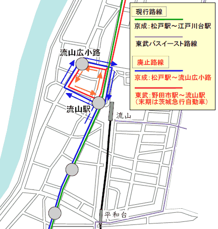 Service section of Nagareyama Line around Nagareyama St. by Keisei Bus Co., Ltd.